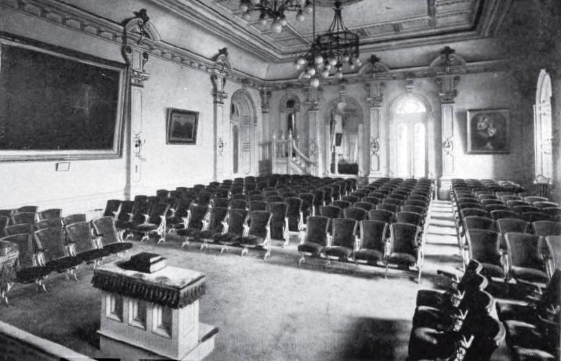 Photograph of the Terrestrial Room in the Salt Lake Temple of The Church of Jesus Christ of Latter-day Saints.